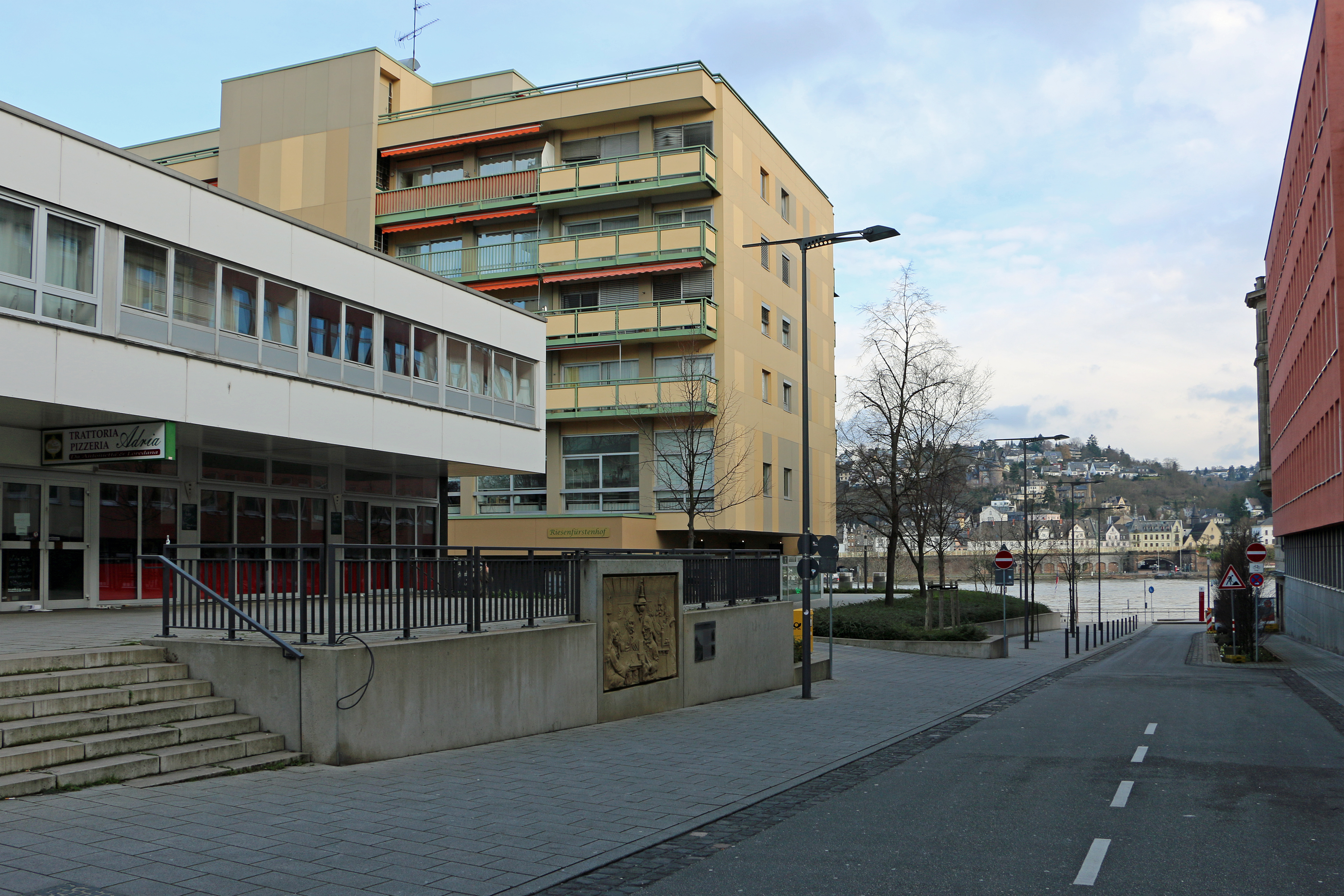 Rheinstraße in Koblenz